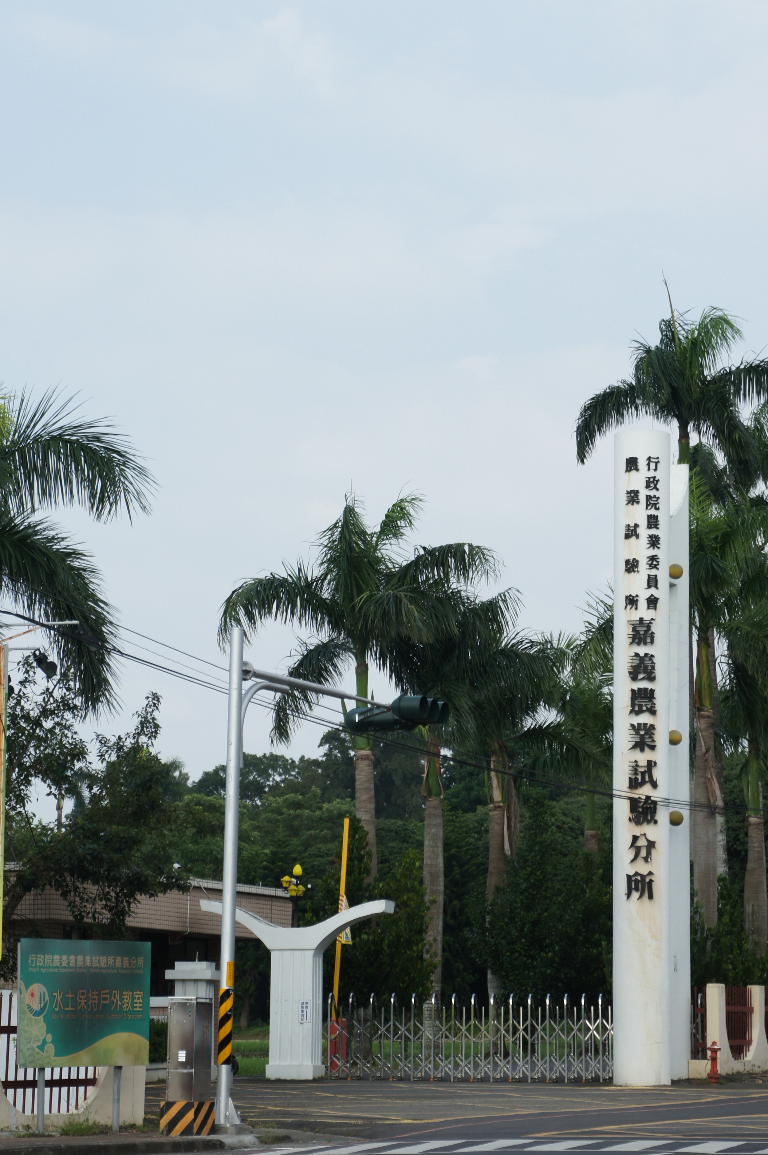 Main entrance of the Chiayi Agricultural Experiment Station, 2 Mincheng Road, Chiayi, Taiwan.